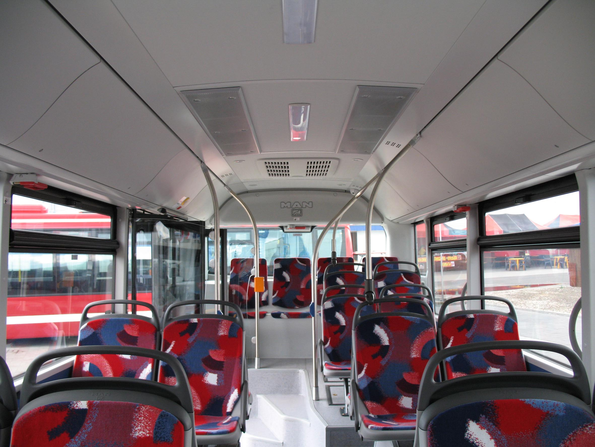 MAN Lion's City GXL quad-axle city bus interior in Kielce, Poland, Transexpo 2007.